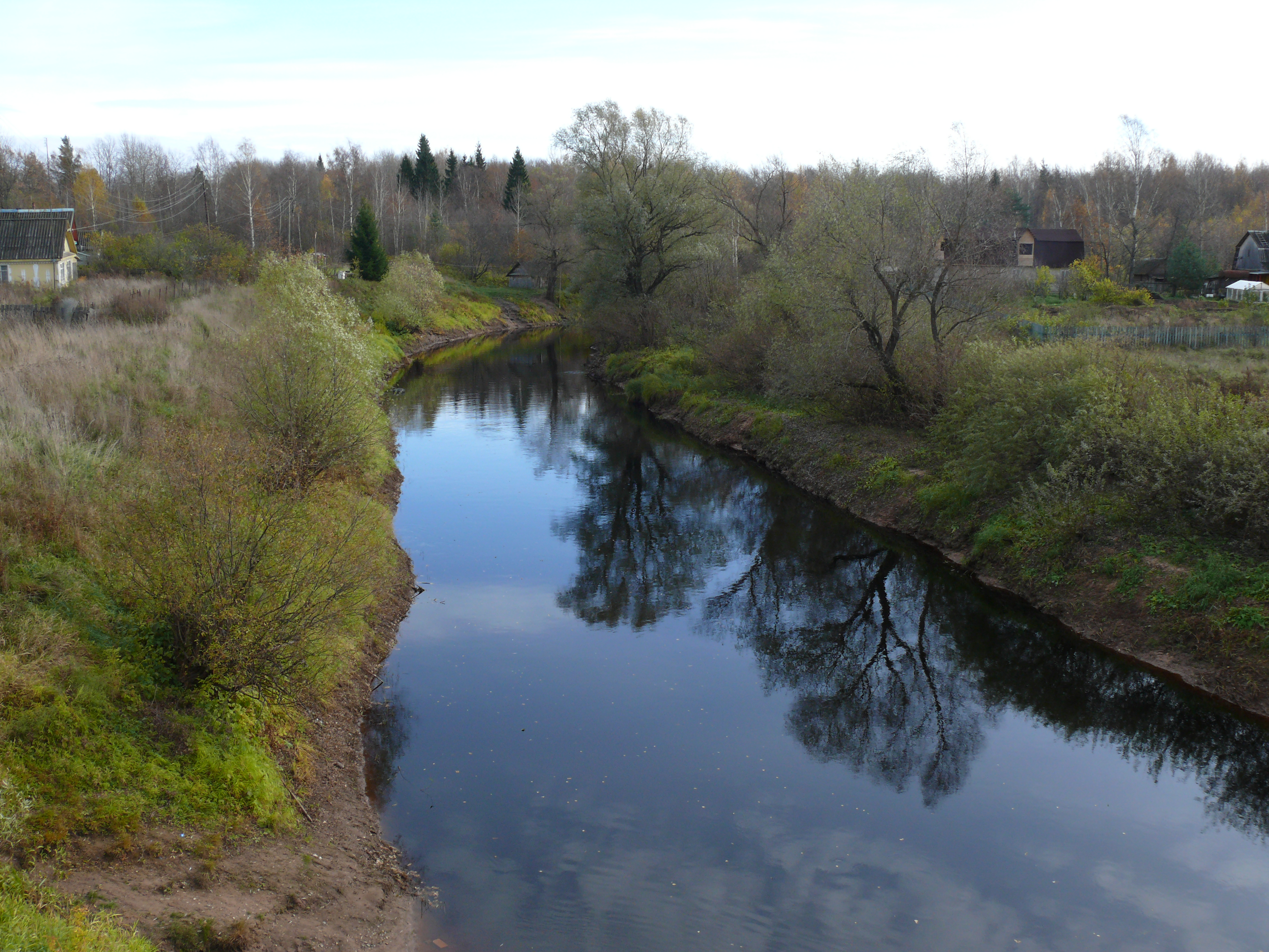 Redya river in Ivankovo village, Parfinsky district, Novgorod oblast, Russia